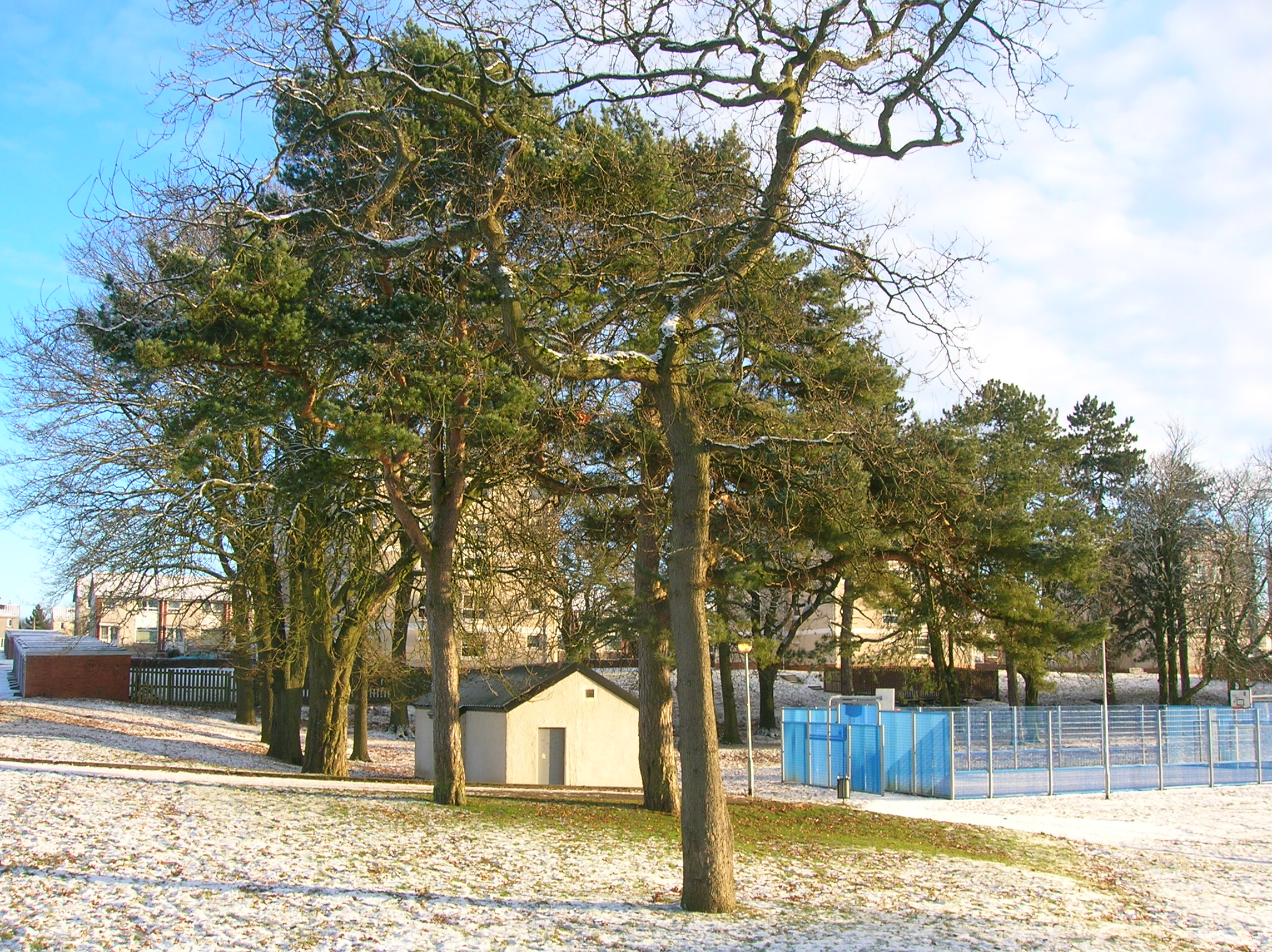 The site of Newfarm Loch from the north. A drained loch and former curling pond. Kilmarnock, East Ayrshire, Scotland.